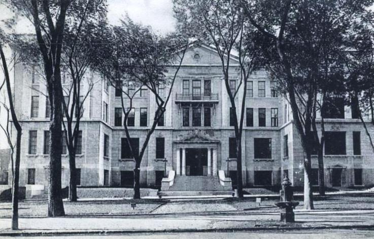 Print, Ecole Polytechnique, Montreal, QC, about 1910, Ink on paper mounted on card - Collotype - 8 x 13 cm